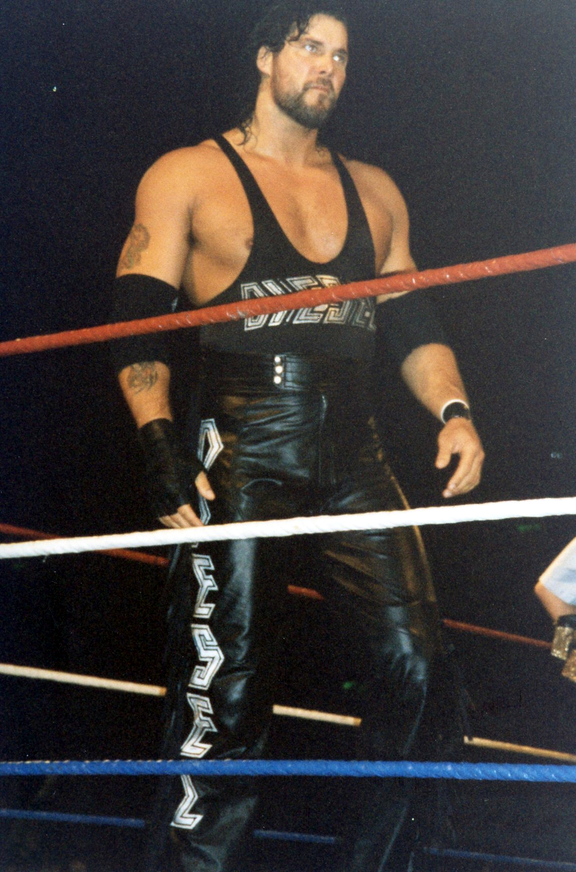 Diesel stands mid-ring of the Wembley Arena of London. Originally taken 9/14/1994.